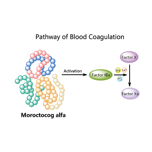 Pathway of blood coagulation